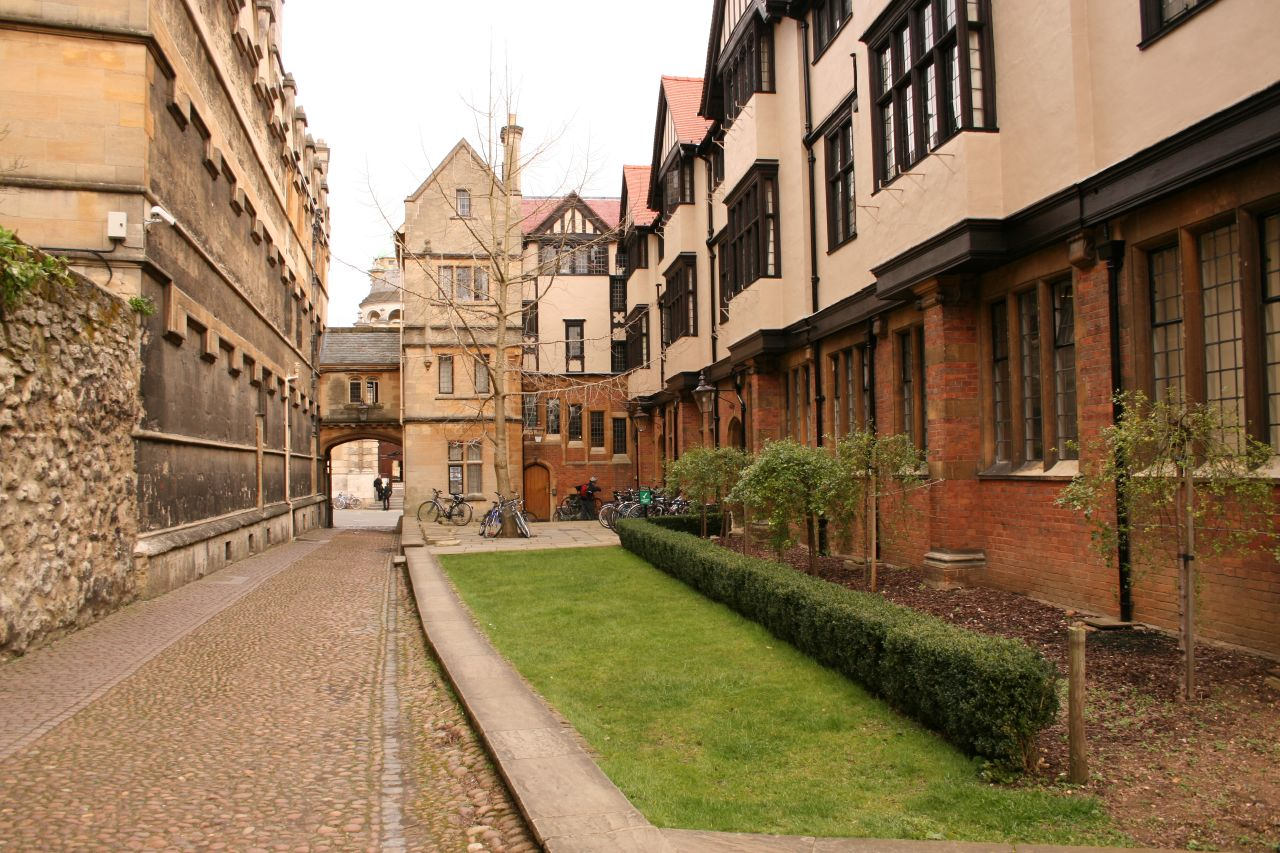 A view of Logic Lane looking north towards the High Street from within University College, Oxford.